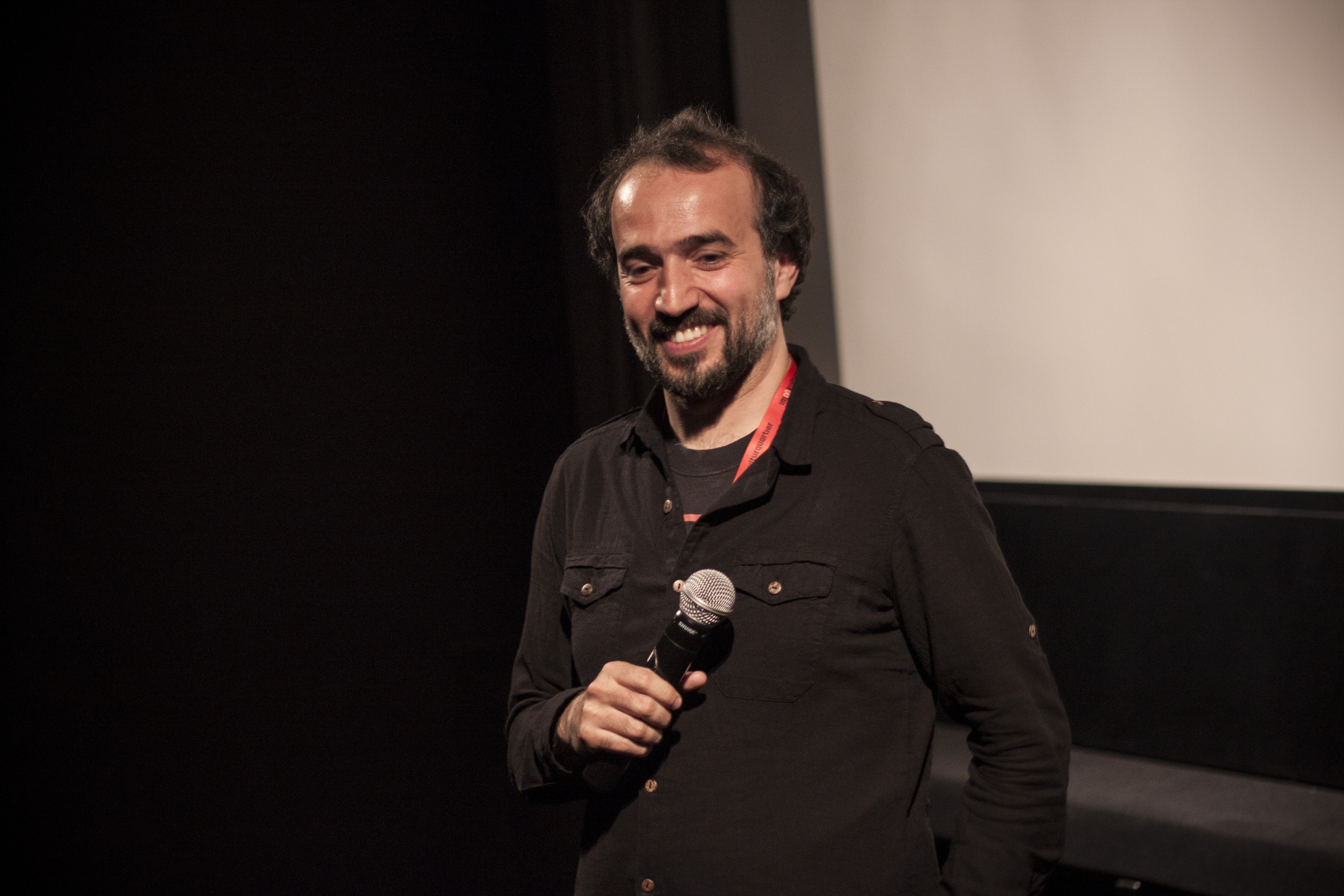 Crossing Europe 2015 - Q&A "No Land's Song" Ayat Najafi (Director)